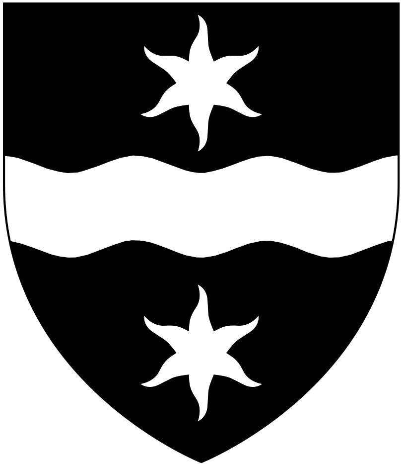 Arms of Admiral Sir Francis Drake: Sable, a fess wavy between two estoiles argent. As seen in Woodbury Church, Devon (parish church of Nutwell Court) & on heraldic chimneypiece at Buckland Abbey